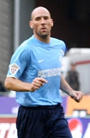 Jan Koller, Czech footballer